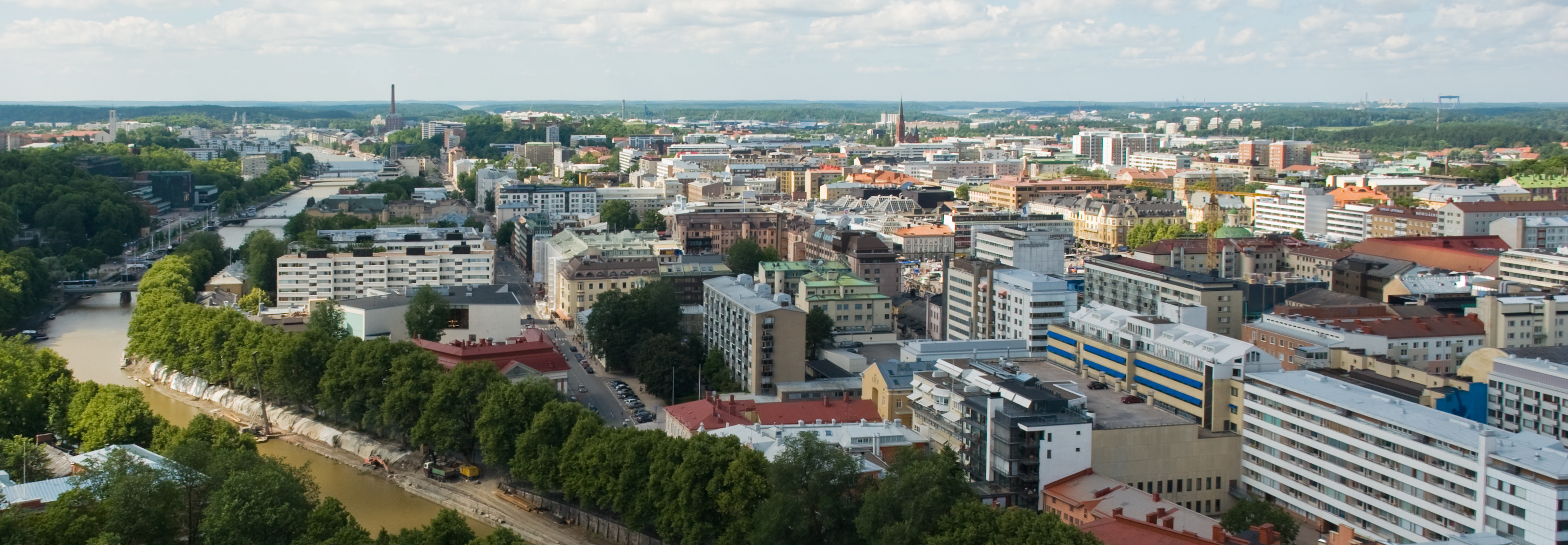 Turku as seen from the tower of Turku Cathedral. The photo mimics another photo taken in late 19th century.